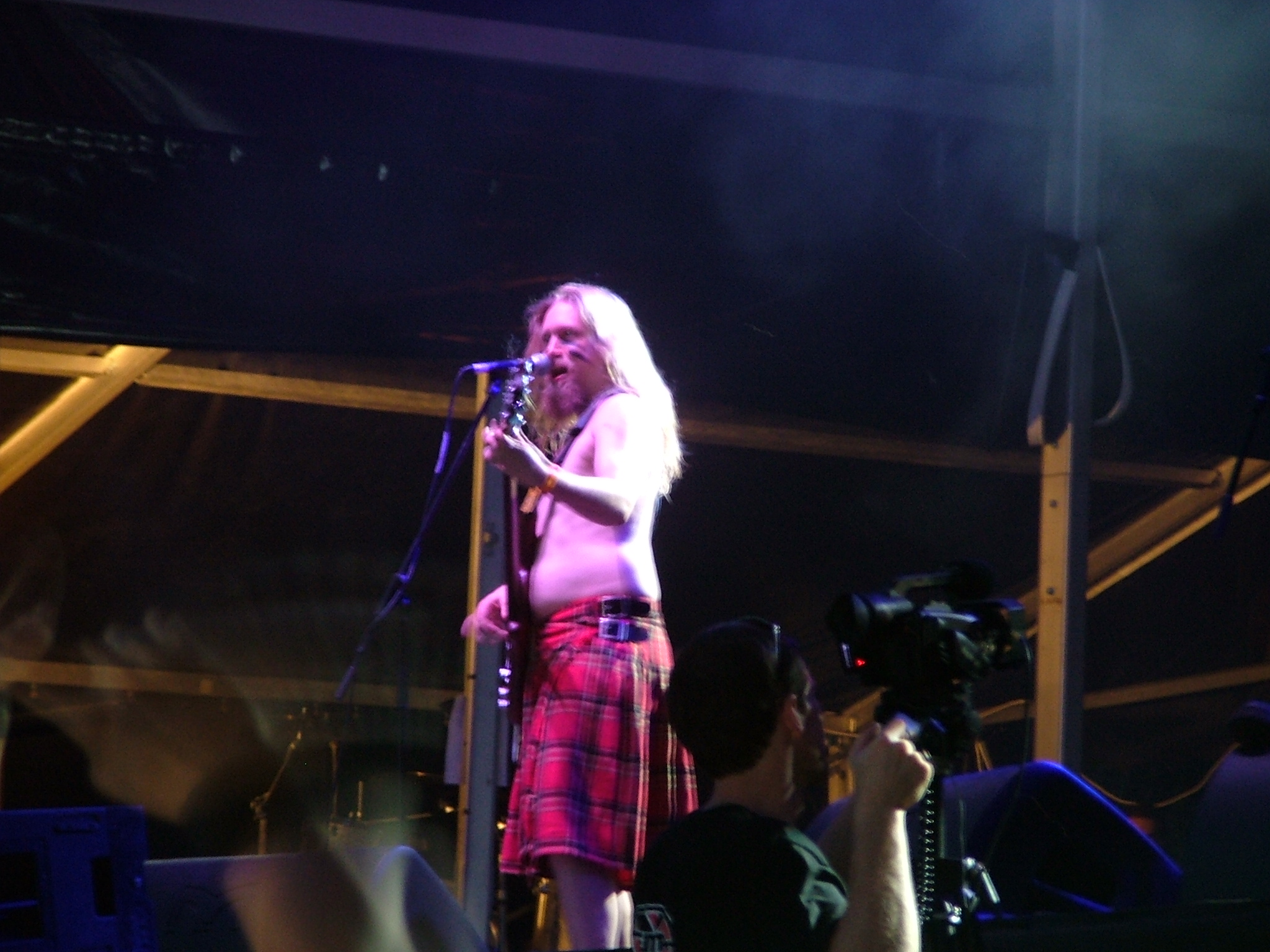 Finnish Viking Metal band Ensiferum at the Metalcamp in Tolmin (Sami Hinkka)